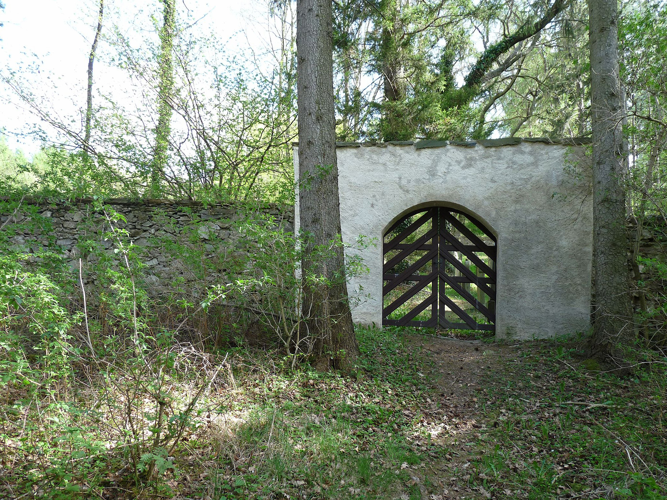 Gate of the Jewish cemetery in Strážov, Klatovy District, Czech Republic